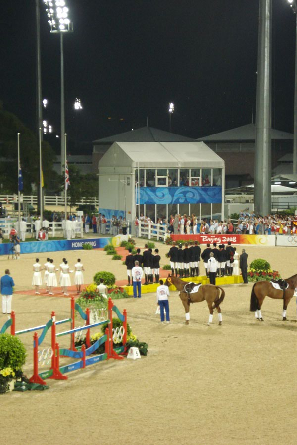 Beijing 2008 Olympic Game - Equestrian Event - Victory Ceremony of Team Eventing